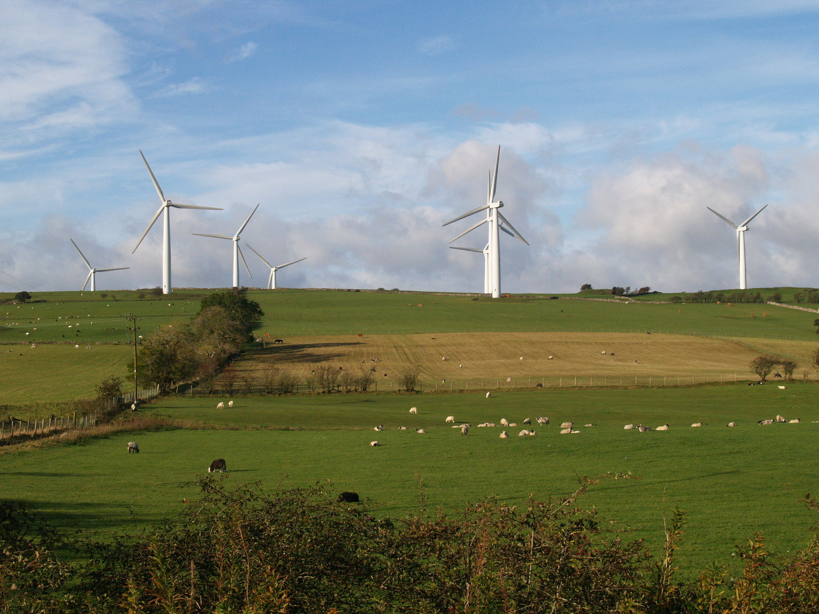 Wharrels Hill Wind Farm, near to Bothel, Cumbria, Great Britain.